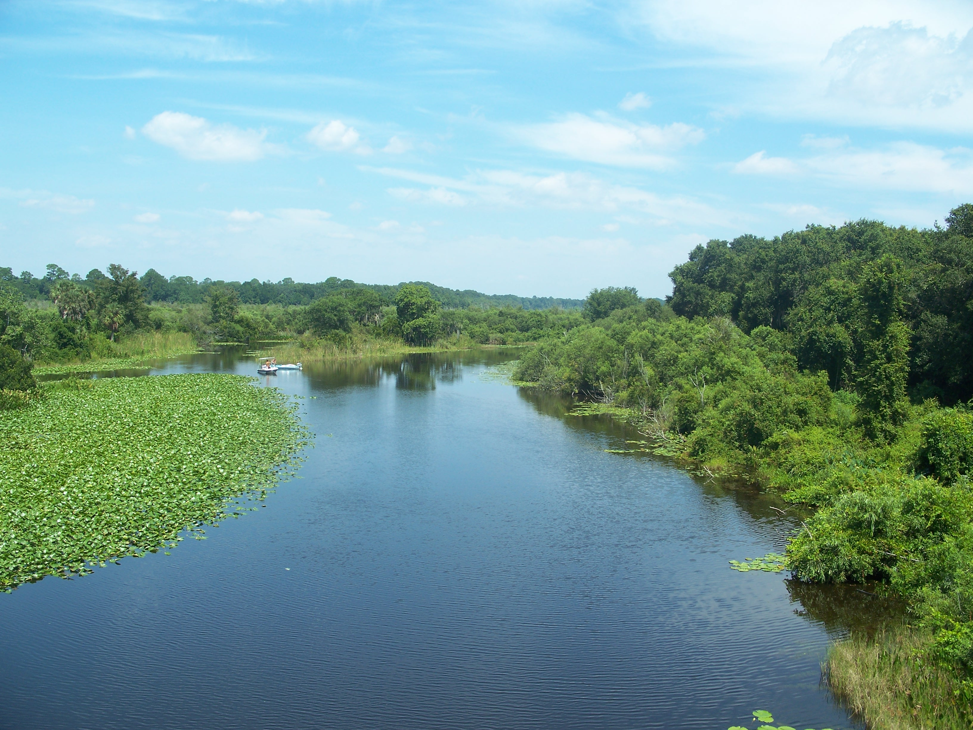 Ocklawaha River: At the Starkes Ferry crossing, looking north.